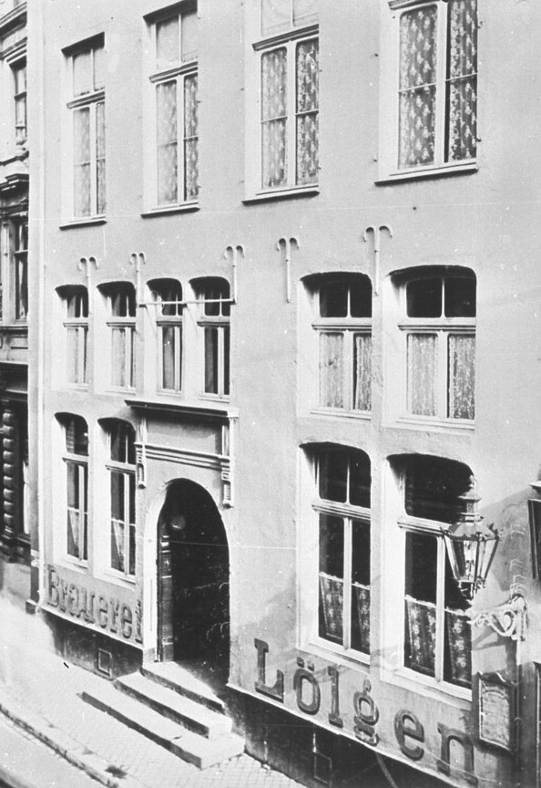 Hohe Pforte 8 - Haus zum Grin, Brauerei Lölgen (um 1900)